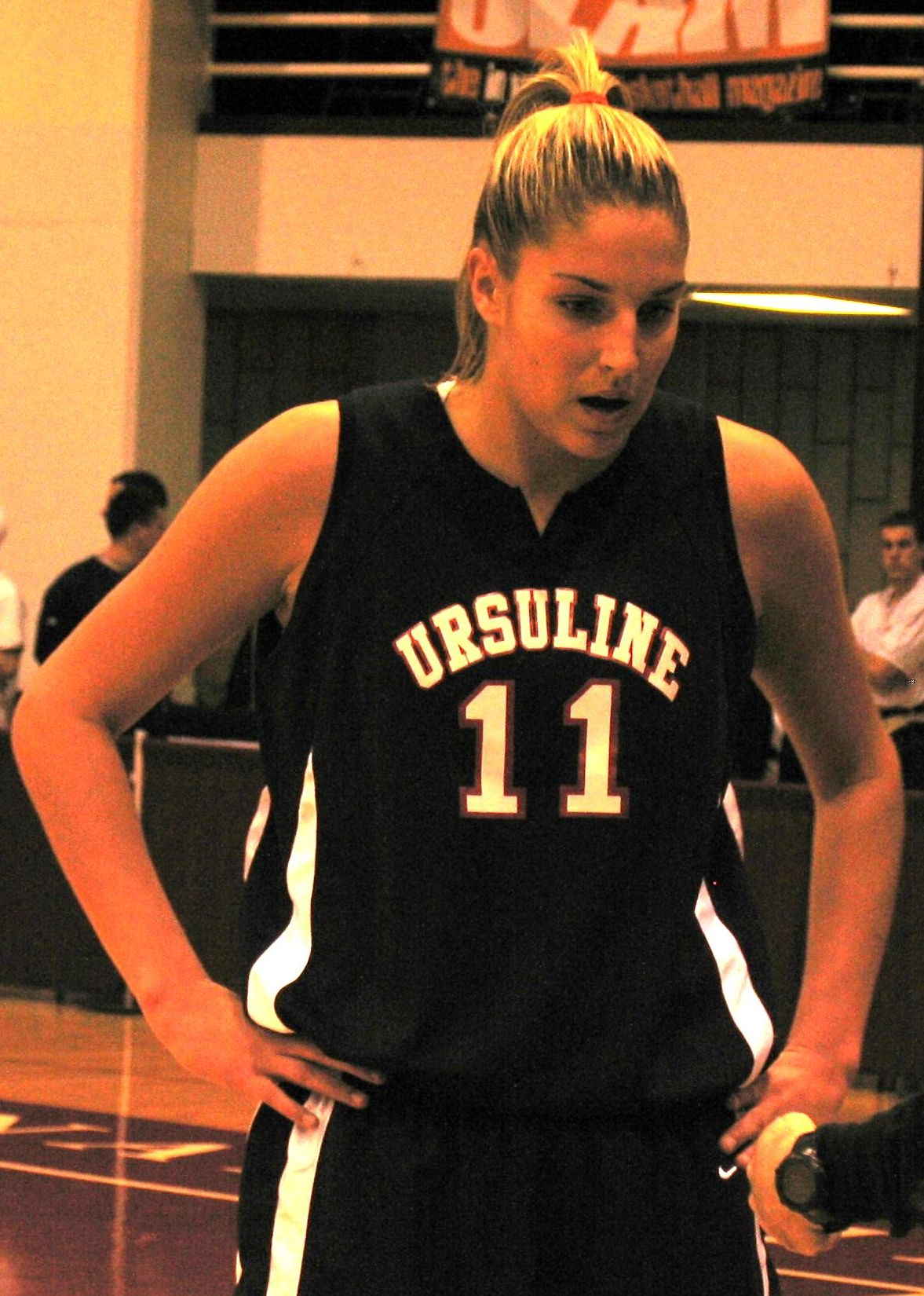 Spalding Hoophall Classic in Springfield Massachusetts